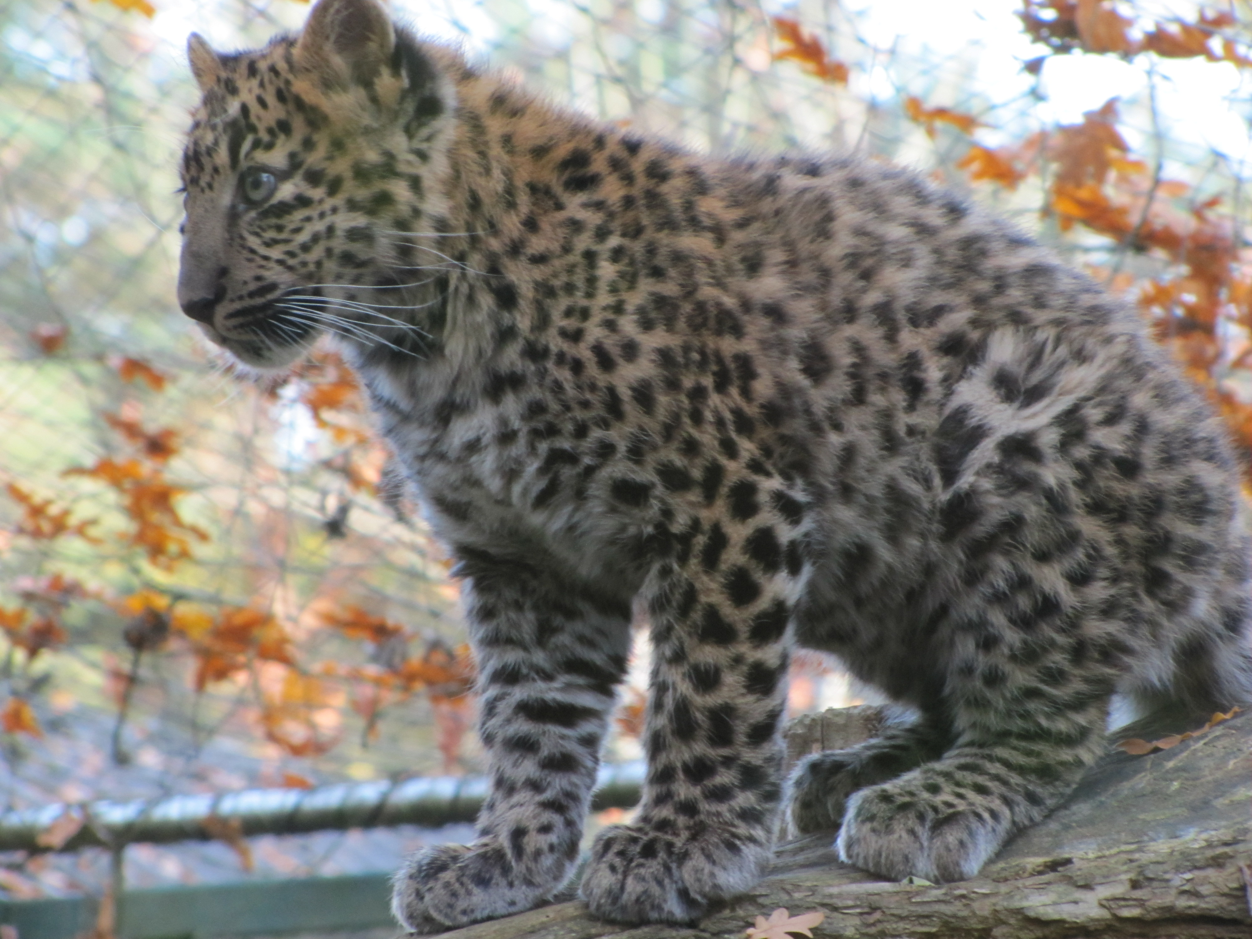 Young North China leopard (Panthera pardus japonensis) in Zoo Cottbus